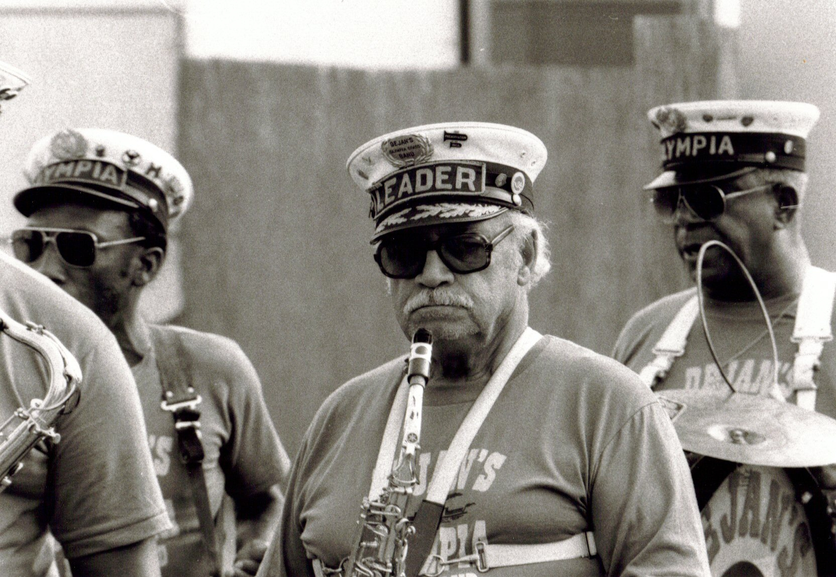 Olympia Brass Band, Hollabrunn, Austria. Leader Harold Dejan center.